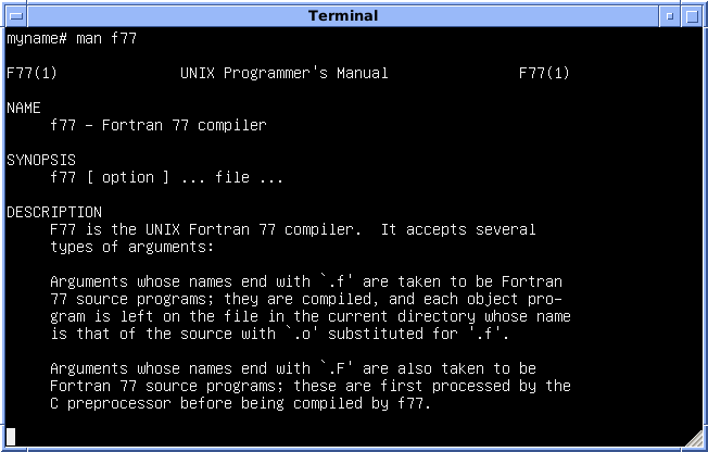 4.3 BSD from the University of Wisconsin, running in the SIMH VAX-11/780 simulator with 16MB memory. The system describes itself as "4.3 BSD UNIX" and "4.3+NFS", and it dates to around January 1987. Reading the manual page for "f77" (FORTRAN 77 compiler).